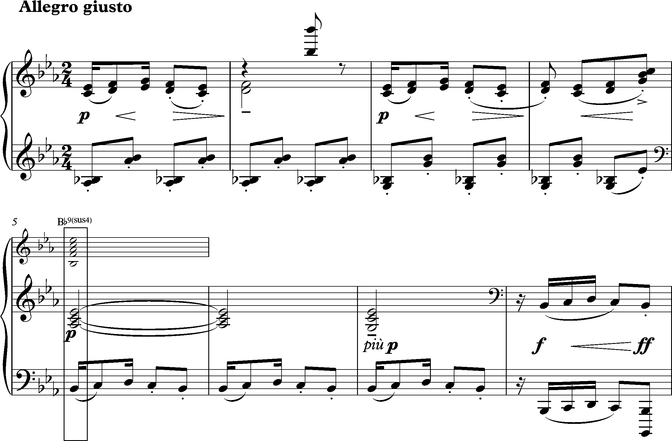 Debussy, Golliwogg's Cake-walk, bars 26-33